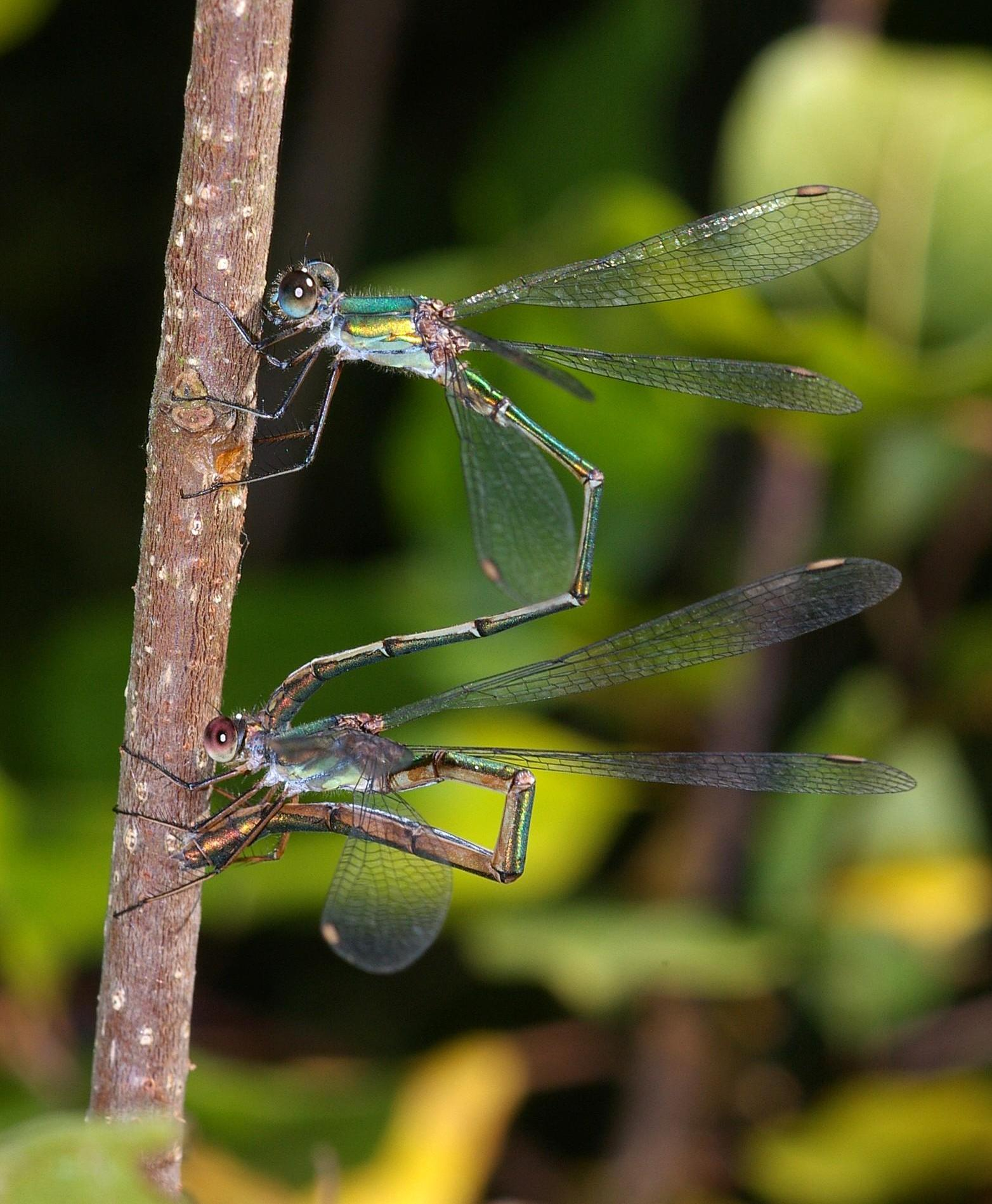 Willow Emerald Damselfly (Chalcolestes viridis); male and female specimen in "tandem arrangement" laying eggs into the bark of Frangula alnus.